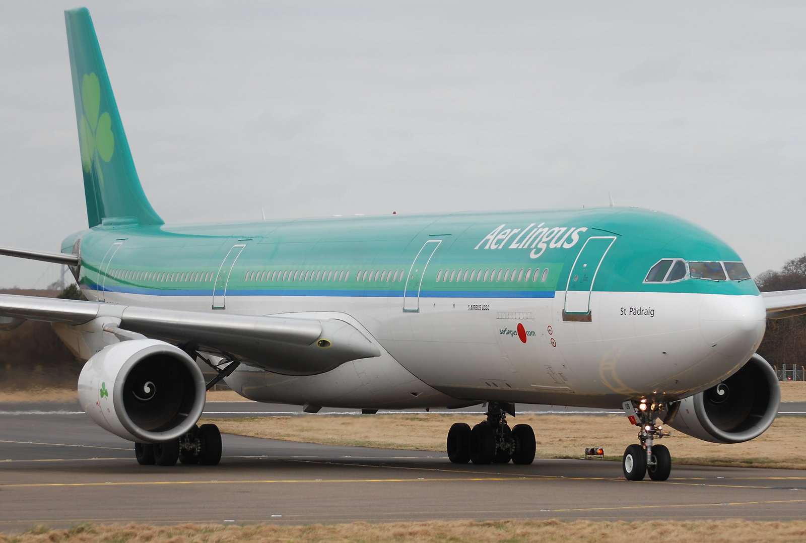 Aer Lingus Airbus A330-301 EI-DUB "St Pädreg" at Edinburgh Airport